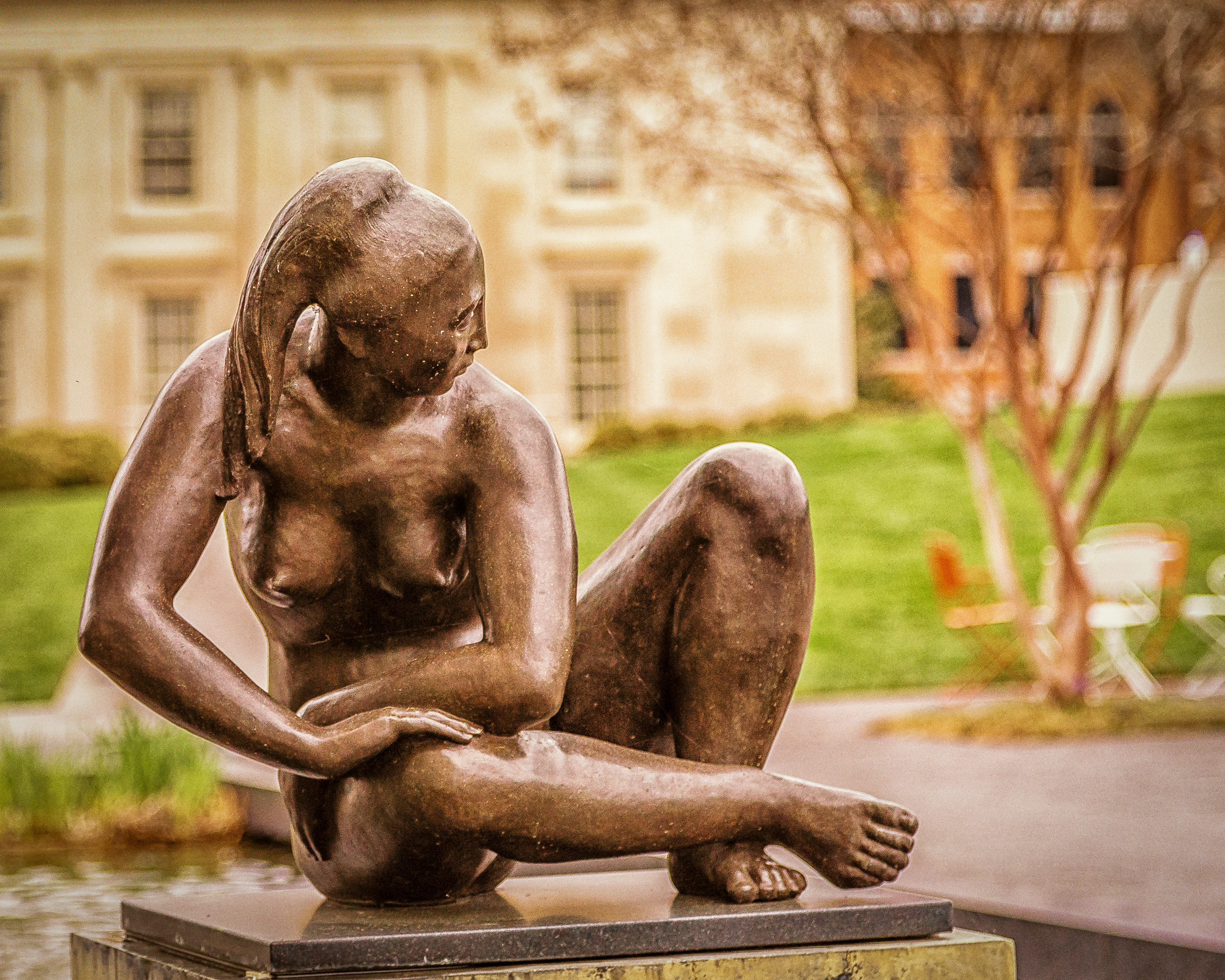 Bianca No. 2, 1951, Bronze, Oronzio Maldarelli, American born in Italy 1892-1963, Virginia Museum of Fine Arts, Richmond, Virginia